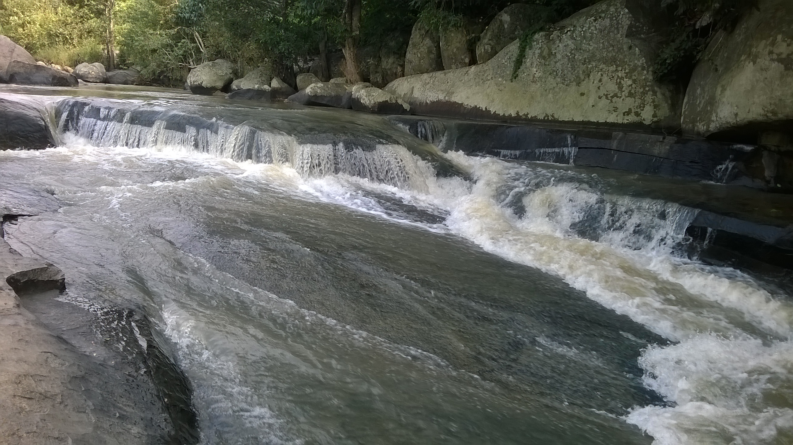 Lover's point, Daringbadi